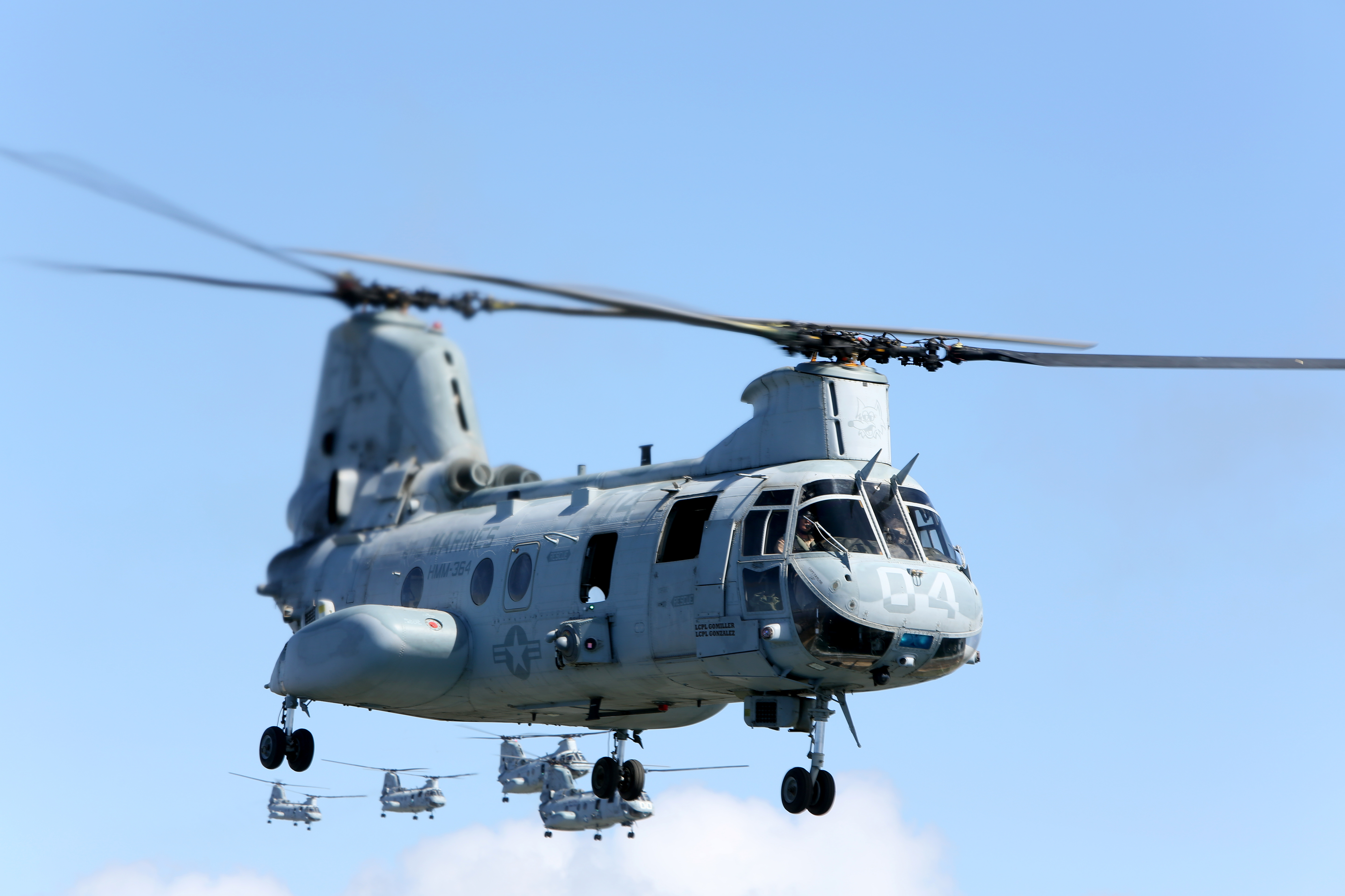 U.S. Marines with Marine Medium Helicopter Squadron (HMM) 364, Marine Aircraft Group 39, 3rd Marine Aircraft Wing (MAW), fly CH-46E Sea Knight helicopters over San Diego, Calif., March 31, 2014. After 47 years of flying the CH-46, HMM-364, “Flies the Barn”, taking off and landing in unison and flying in mass formations, signifying the transition to the MV-22 Osprey. (U.S. Marine Corps photo by Sgt. Keonaona C. Paulo, 3rd MAW Combat Camera/Released)